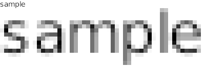 Rasterization without antialiasing or hinting